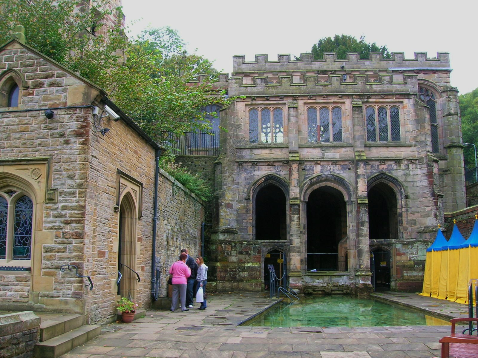 St Winefride's Well